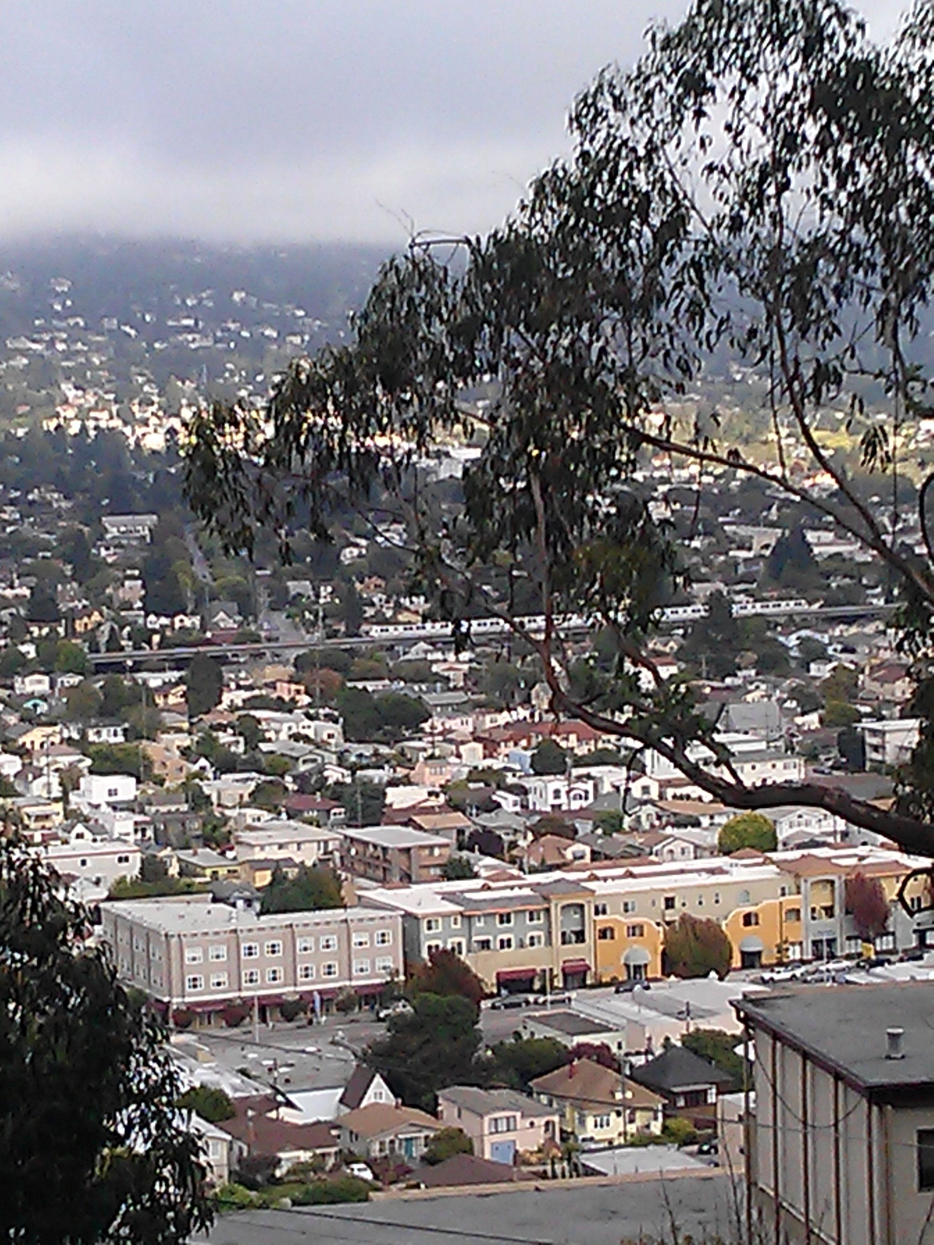 View of midtown from Albany hill park with BART train and Berkeley hills